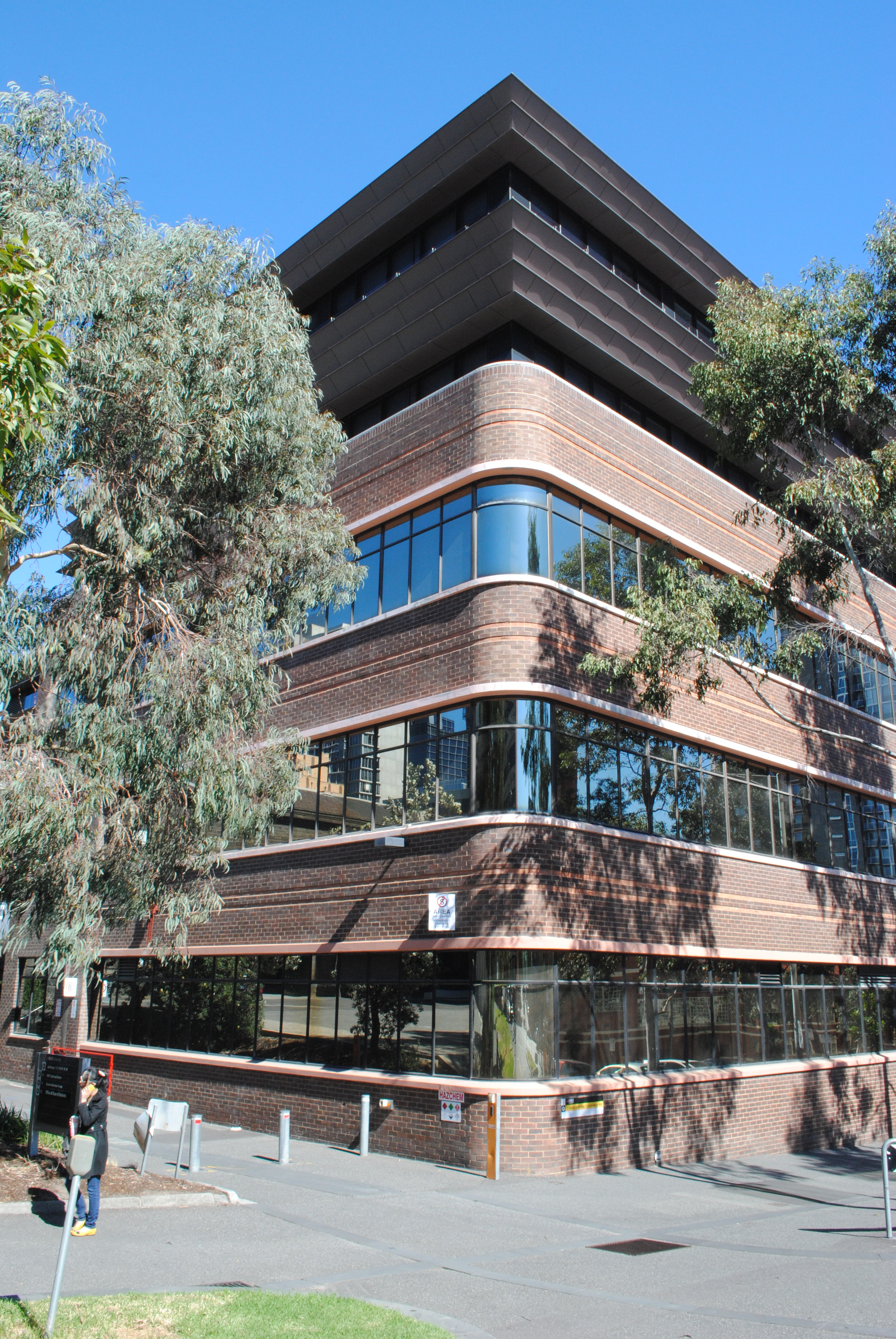 Looking South from Franklin Street to the western facade of building 9. Note the rounded corners and horizontal steel-framed glazing.